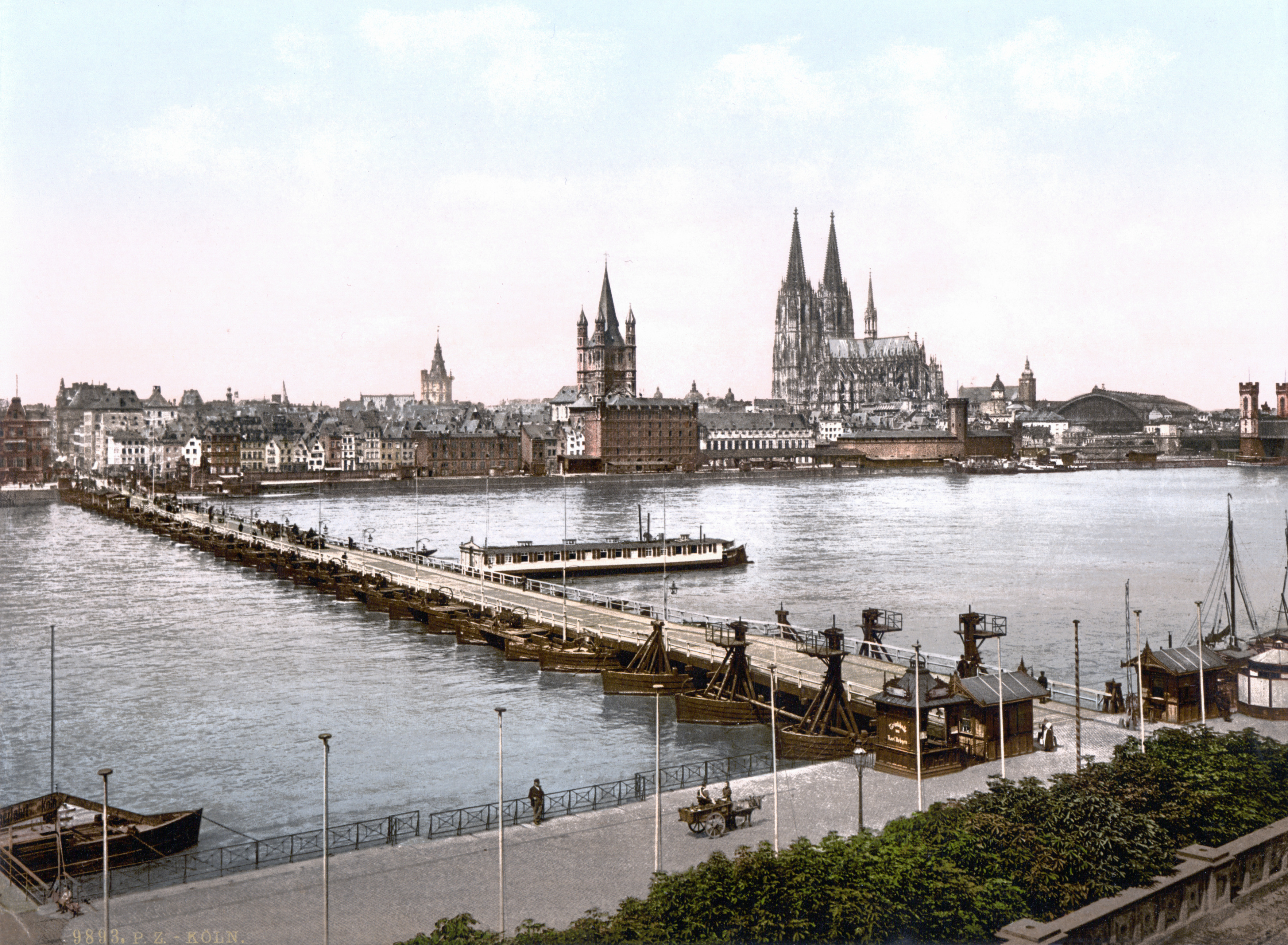 Pontoon bridge from Deutz, Cologne, about 1900